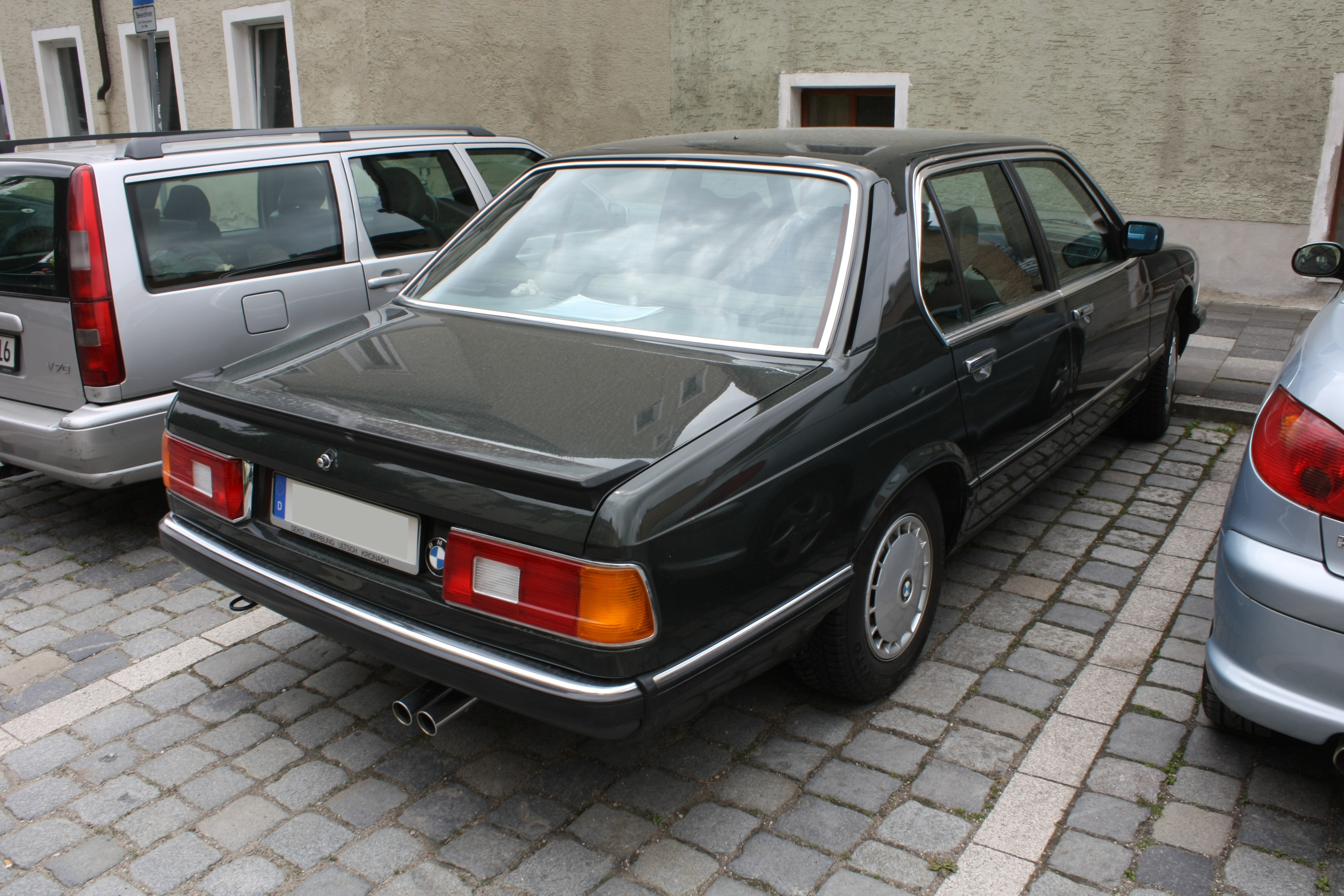 BMW E23 M